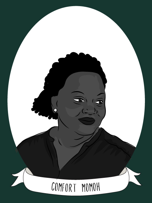 Comfort Momoh is a FGM Consultant/Public Health Specialist and a staunch campaigner for the eradication of FGM. Illustration from Illustrated Women in History.